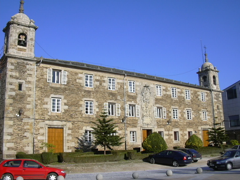 The San Paulo Hospital in Mondoñedo